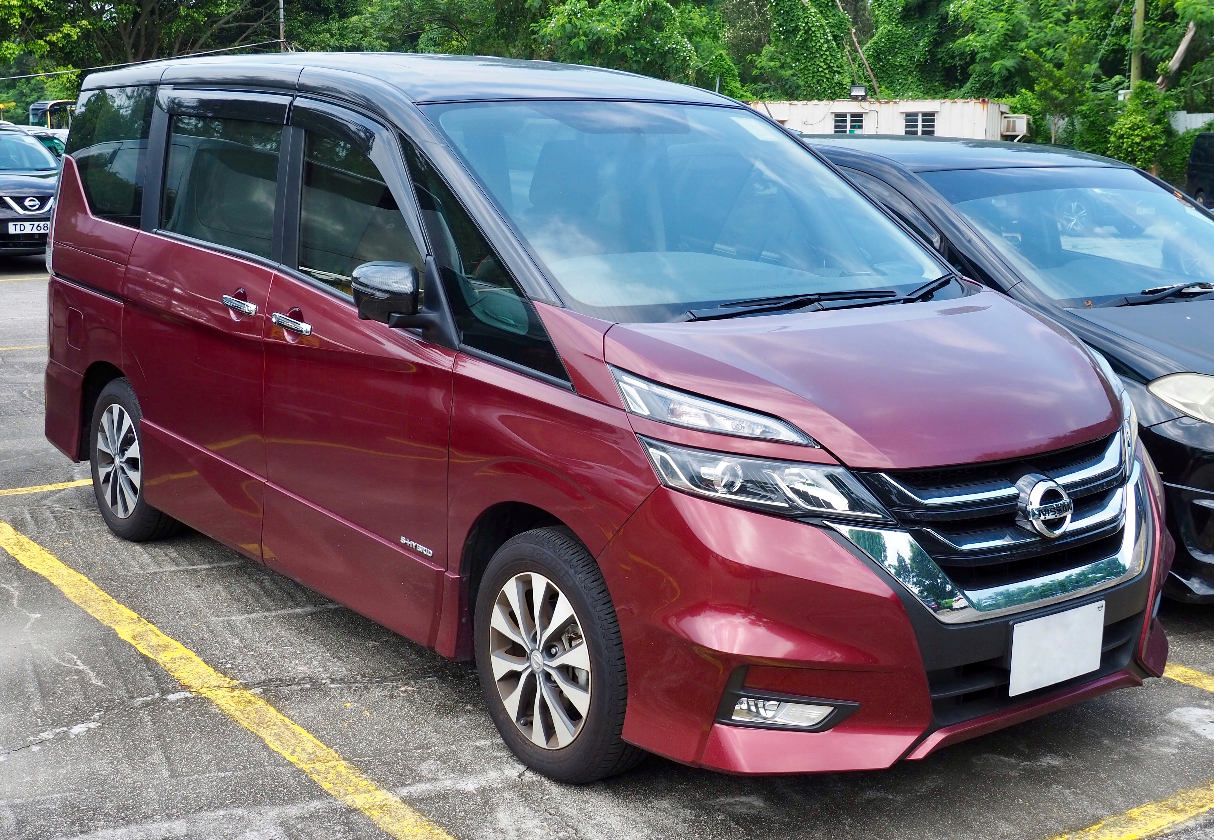 A 2018 Nissan Serena hybrid photographed in New Territories, Hong Kong.